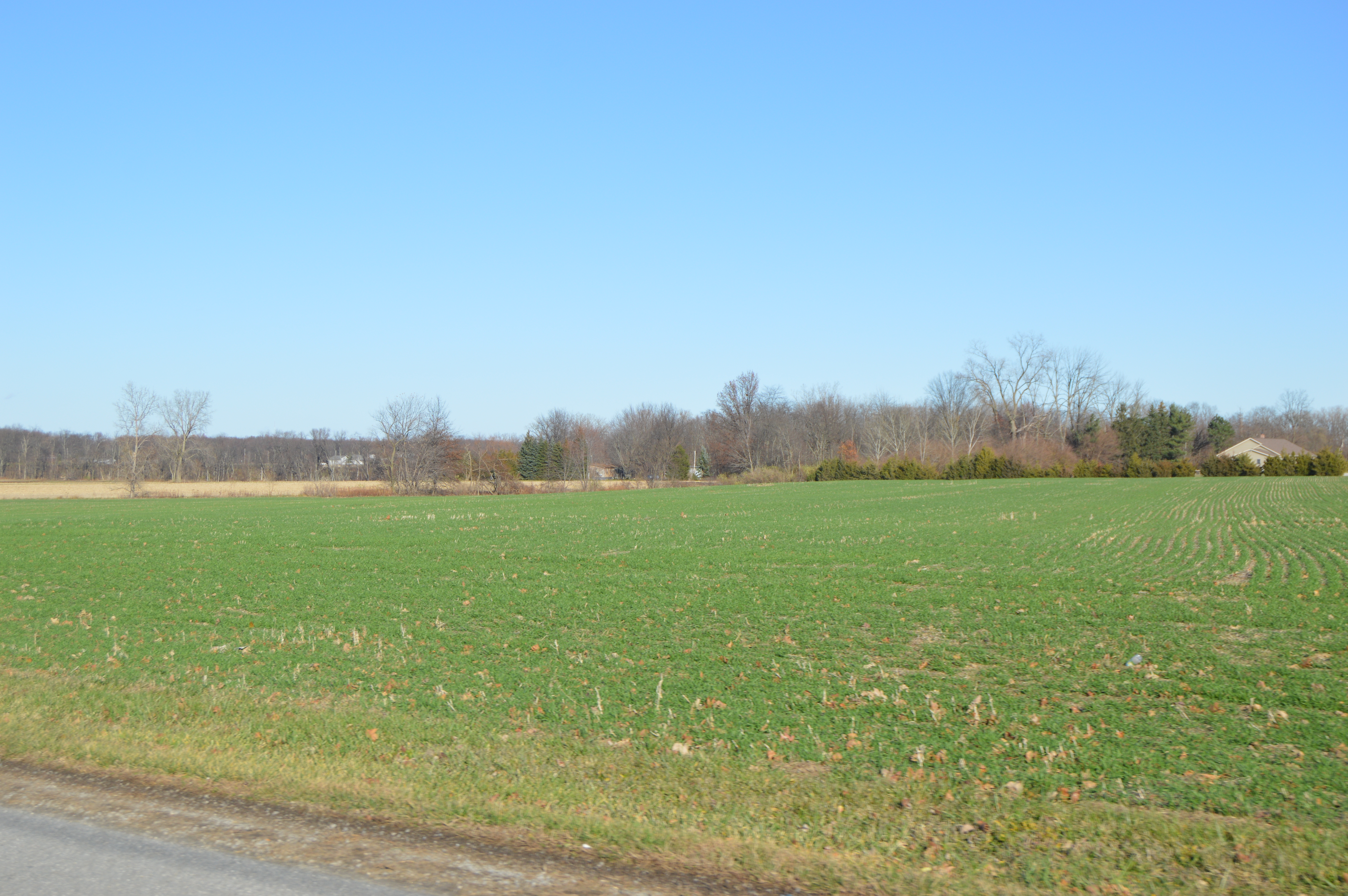 Fields on the eastern side of Road 105 north of the Road 424 intersection in northern Crane Township, Paulding County, Ohio, United States.